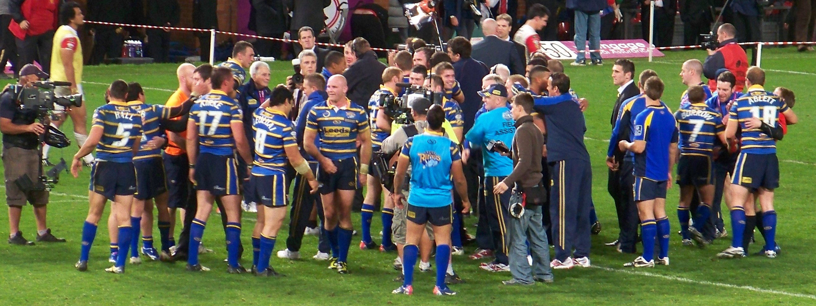 Leeds Rhinos celebrating their victory prior to being presented with their third consecutive Super League Champions trophy. Taken at Old Trafford on the night of Saturday the 10th of October 2009.